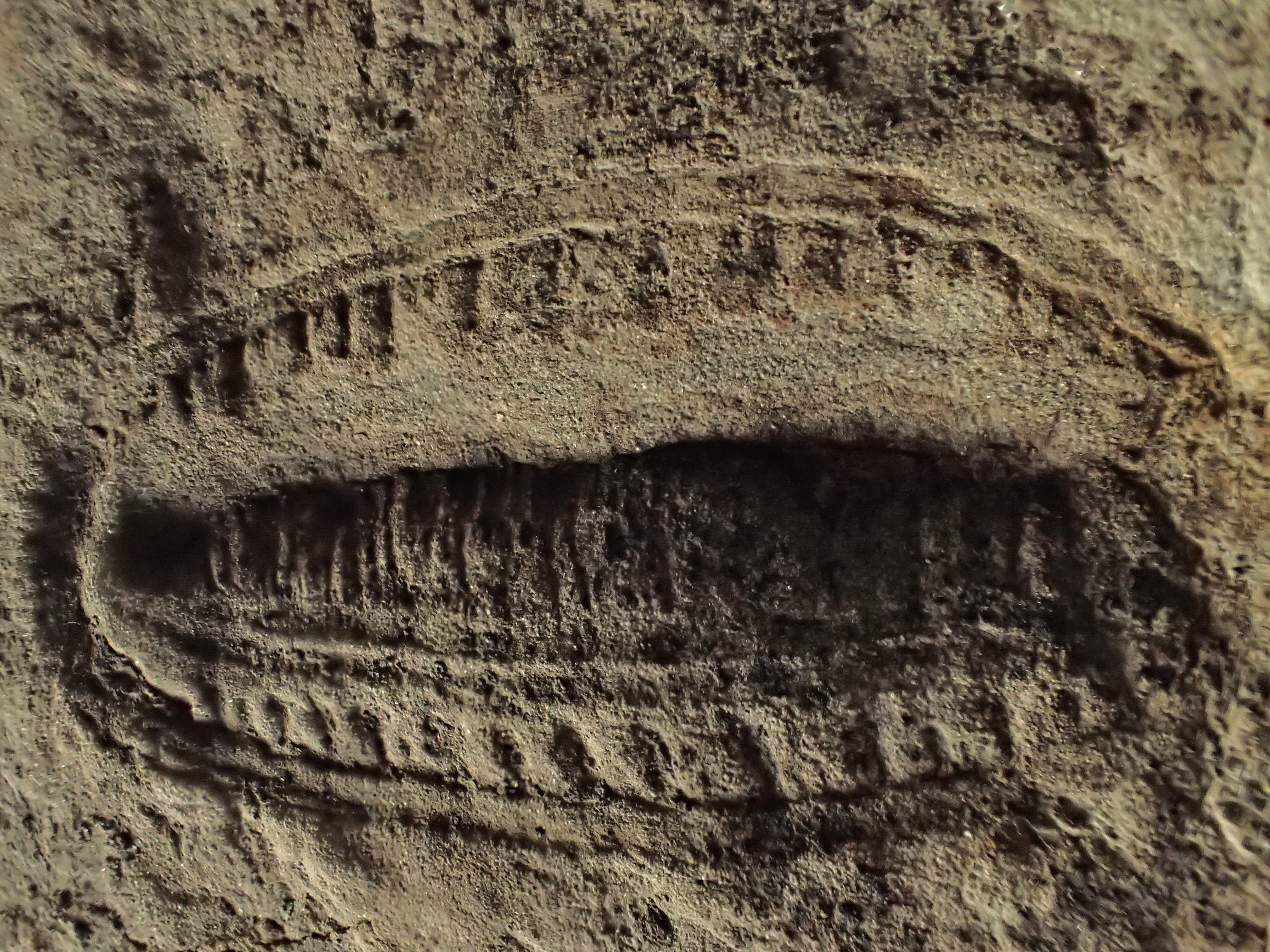 imberella quadrata キンベレラ クアドラタVendian (Ediacaran) Fossil Kimberella quadrata Size 50x22mm エディアカラ生物